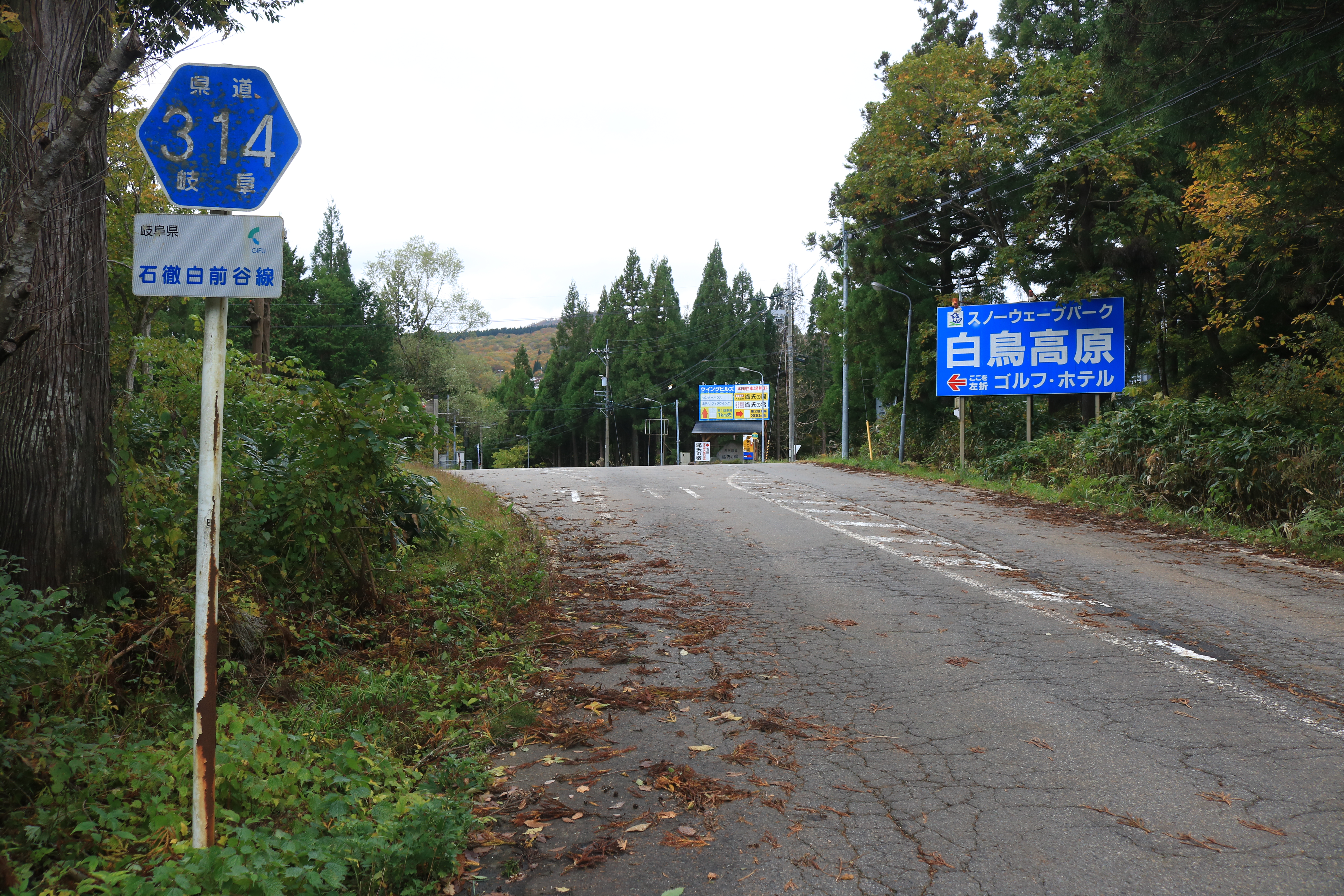 Gifu Prefectural Road Route 314 in Itoshiro, Shirotorichō, Gujō, Gifu Prefecture, Japan.